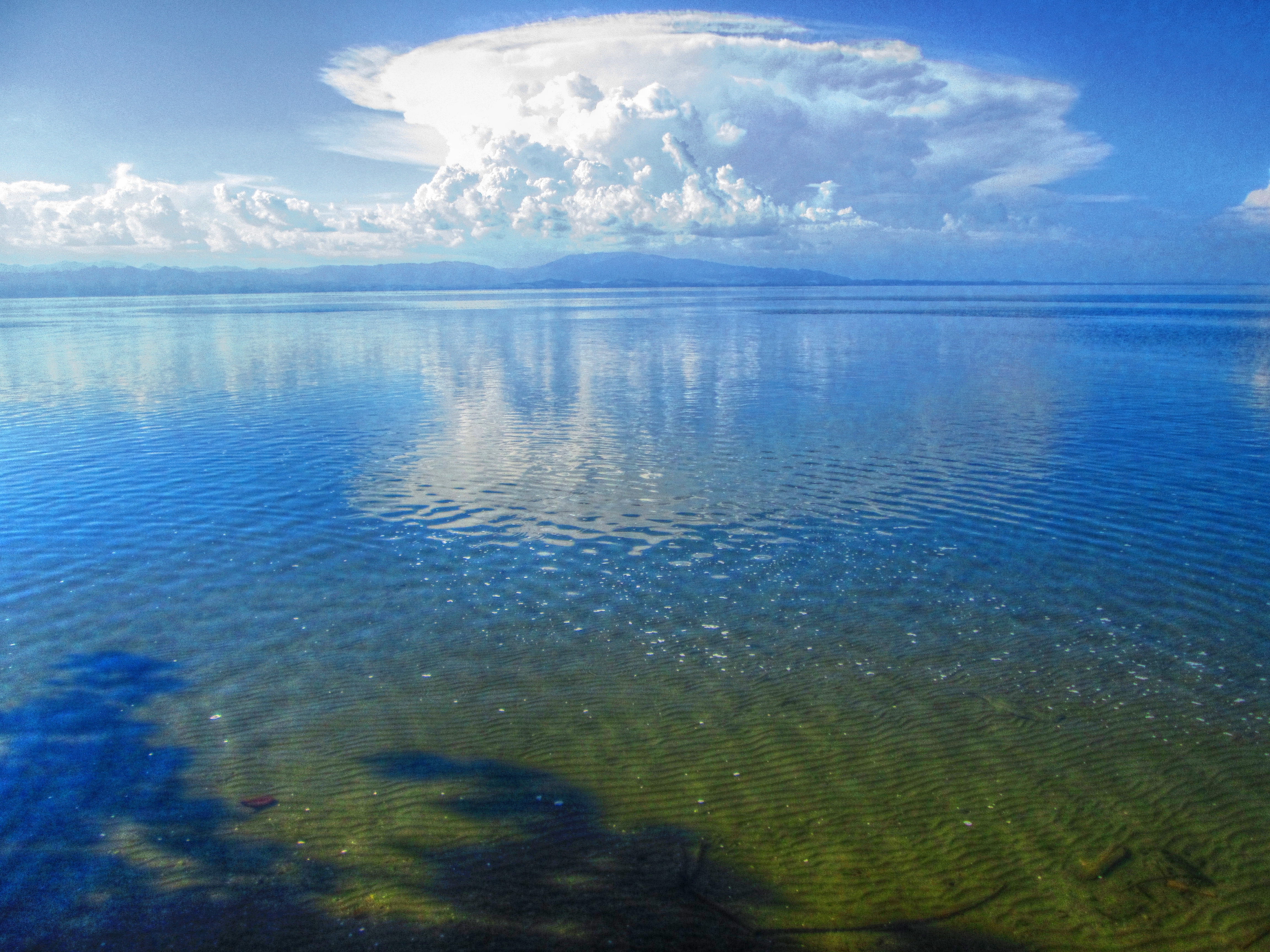 Sea in Izabal, Guatemala